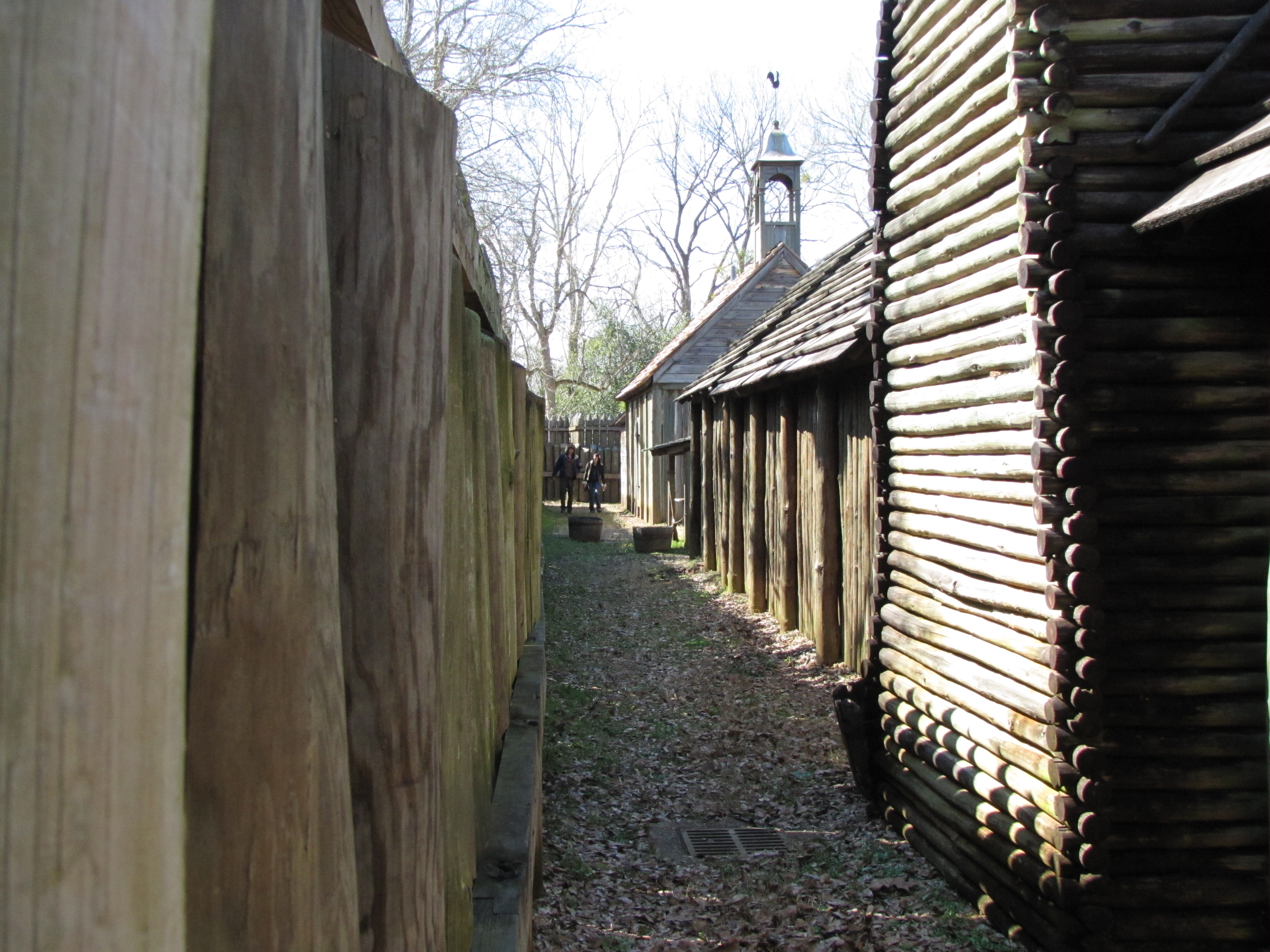 Area between fence and buildings at Fort St. Jean Baptiste State Historic Site in Louisiana.